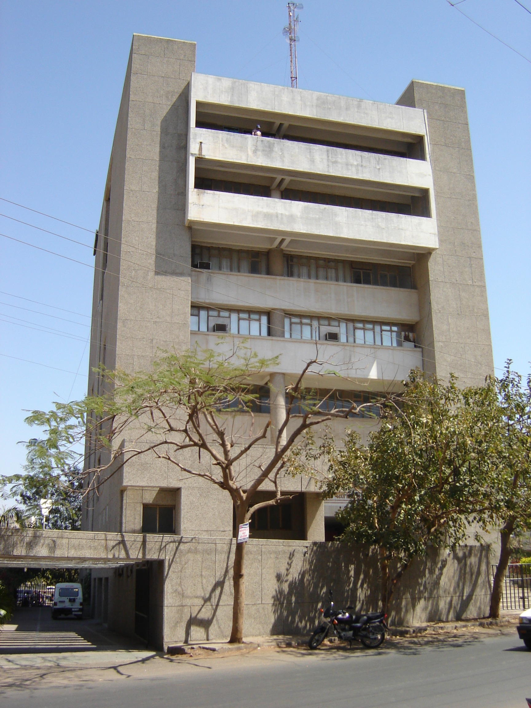 Rajkot Urban Development Authority, which is called Chimanbhai Patel Vikas Bhavan.